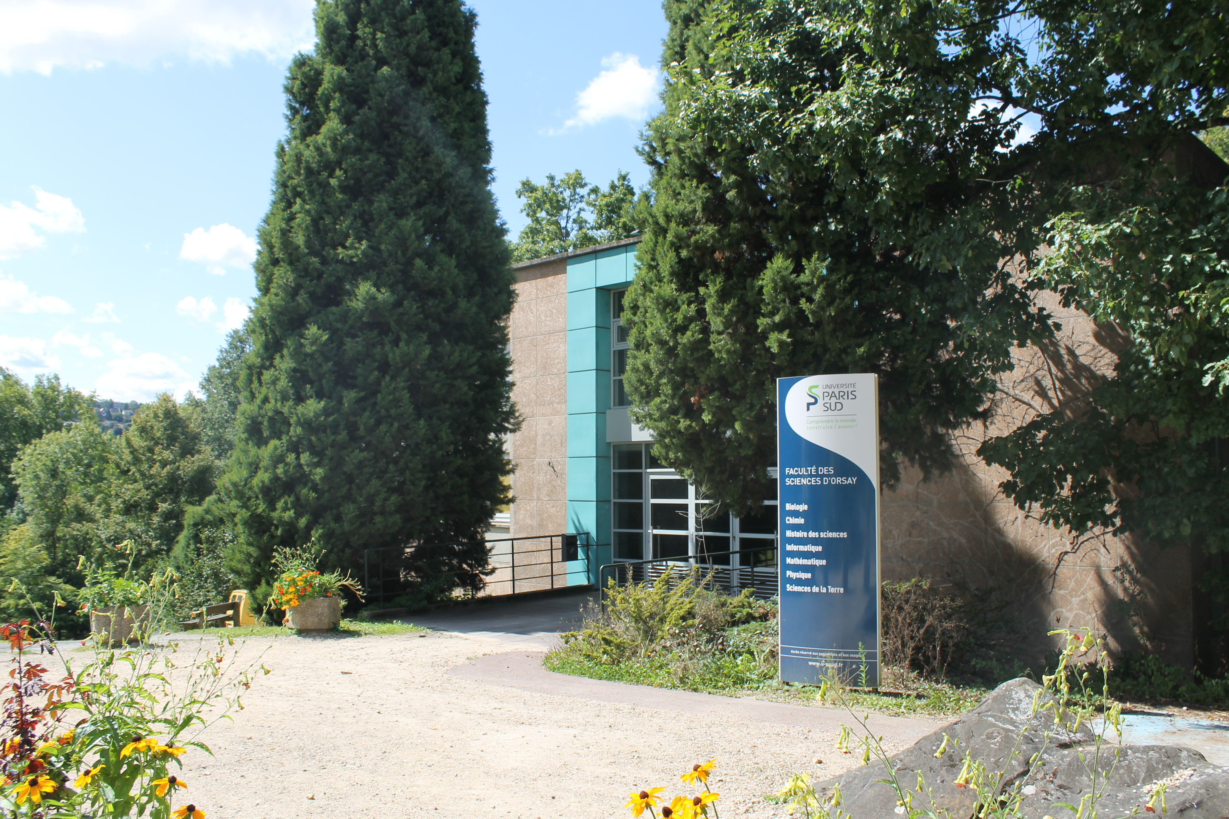 An administrative office of the University of Paris-Sud, in the campus of Paris-Saclay (Orsay, France).